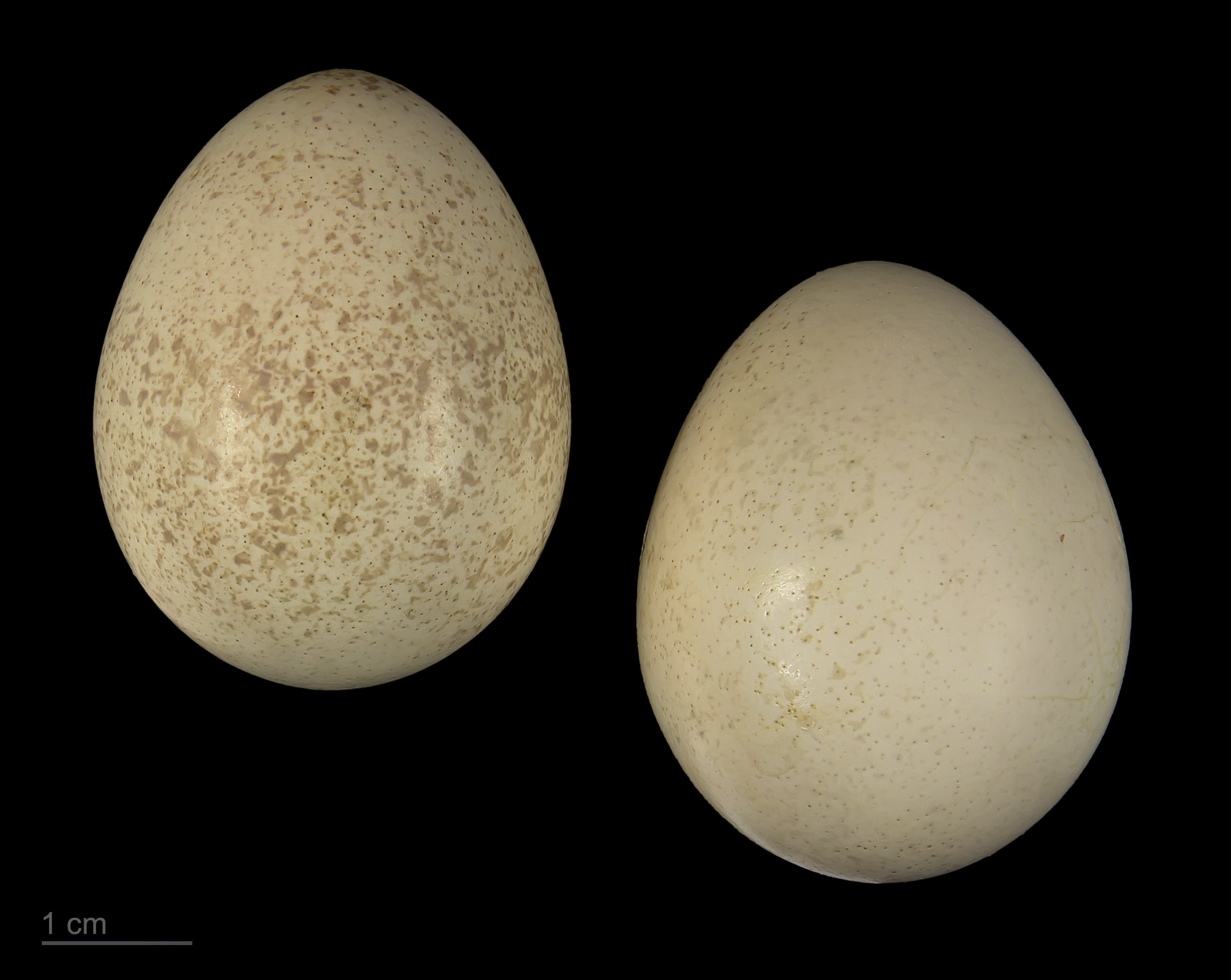 Egg of Alectoris chukar cypriotes Collection of Jacques Perrin de Brichambaut.